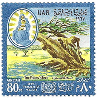 St Mary's Tree, Mattaryya, outside Cairo, 1967.